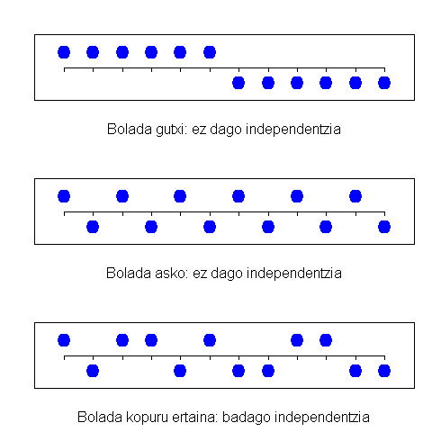 Runs test explanation: when the runs number is too high or too low, there is NO independence. In the midddle, with a normal number, there IS independence.